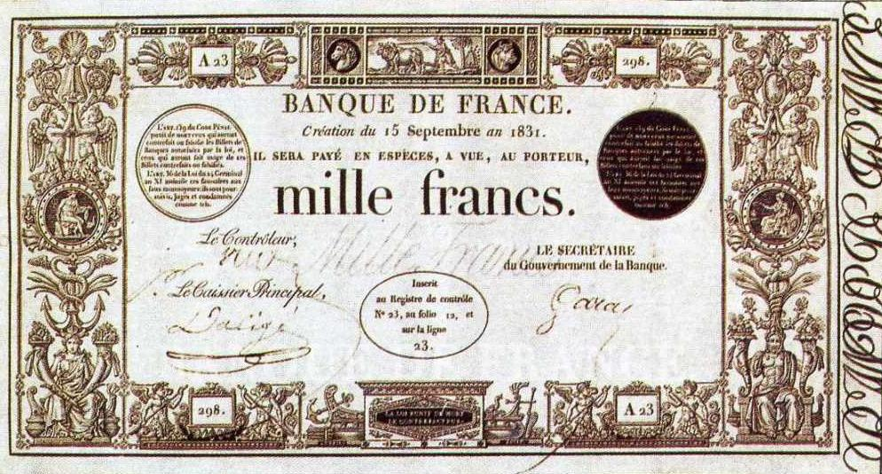 French Banknote 1000 francs black 1831